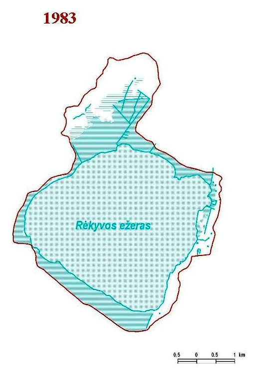 Lake Rėkyva, Lithuania